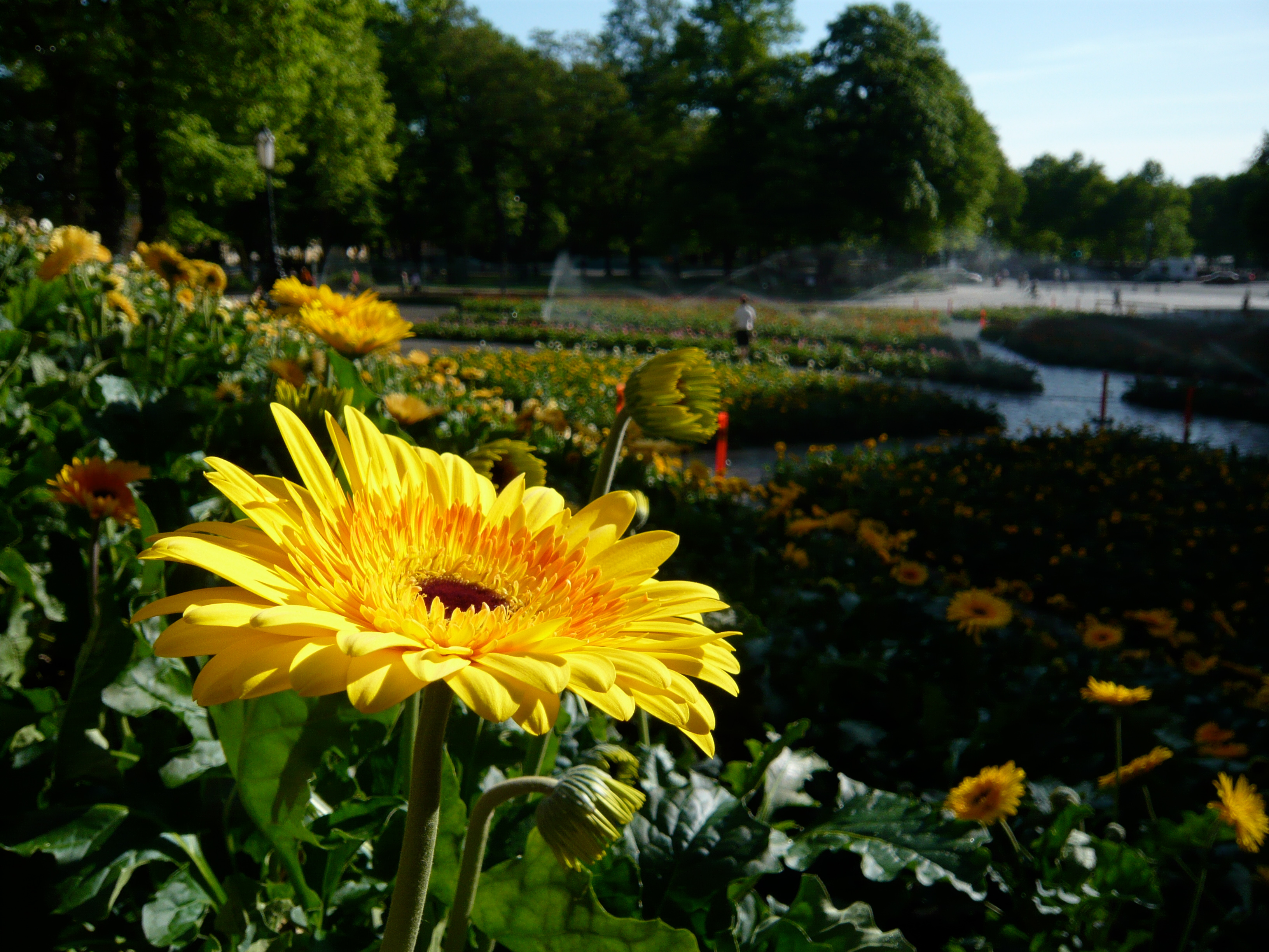 Artist Kaisa Salmi build a flower of seas infront of Turku cathedral on 6 June 2008